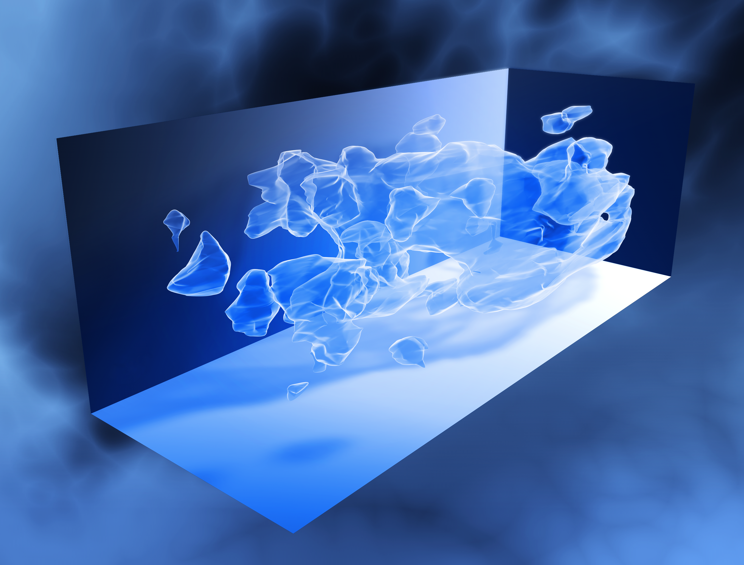 This three-dimensional map offers a first look at the web-like large-scale distribution of dark matter, an invisible form of matter that accounts for most of the Universe's mass. The map reveals a loose network of dark matter filaments, gradually collapsing under the relentless pull of gravity, and growing clumpier over time. The three axes of the box correspond to sky position (in right ascension and declination), and distance from the Earth increasing from left to right (as measured by cosmological redshift). Note how the clumping of the dark matter becomes more pronounced, moving right to left across the volume map, from the early Universe to the more recent Universe. The distribution of mass in the Hubble Space Telescope COSMOS survey, determined from measurements of weak gravitational lensing. The field of view covers about nine times the size of the full moon, and the third dimension stretches from redshift z=0 to z=1. The figure shows one isosurface of the gravitational potential.